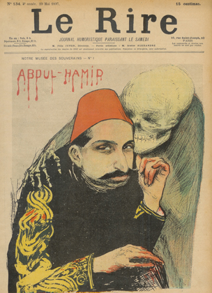 Abdul Hamid II, The Red Sultan, “Le Rire”, Number 134, 29 May, Paris, 1897